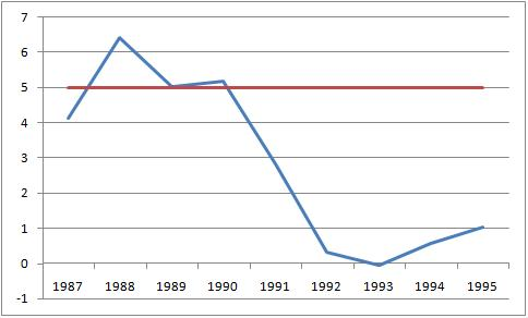 Blue line is Percent Change From Preceding Period in Real Gross Domestic Product Red line is Average GDP growth for Japan from 1950–2000